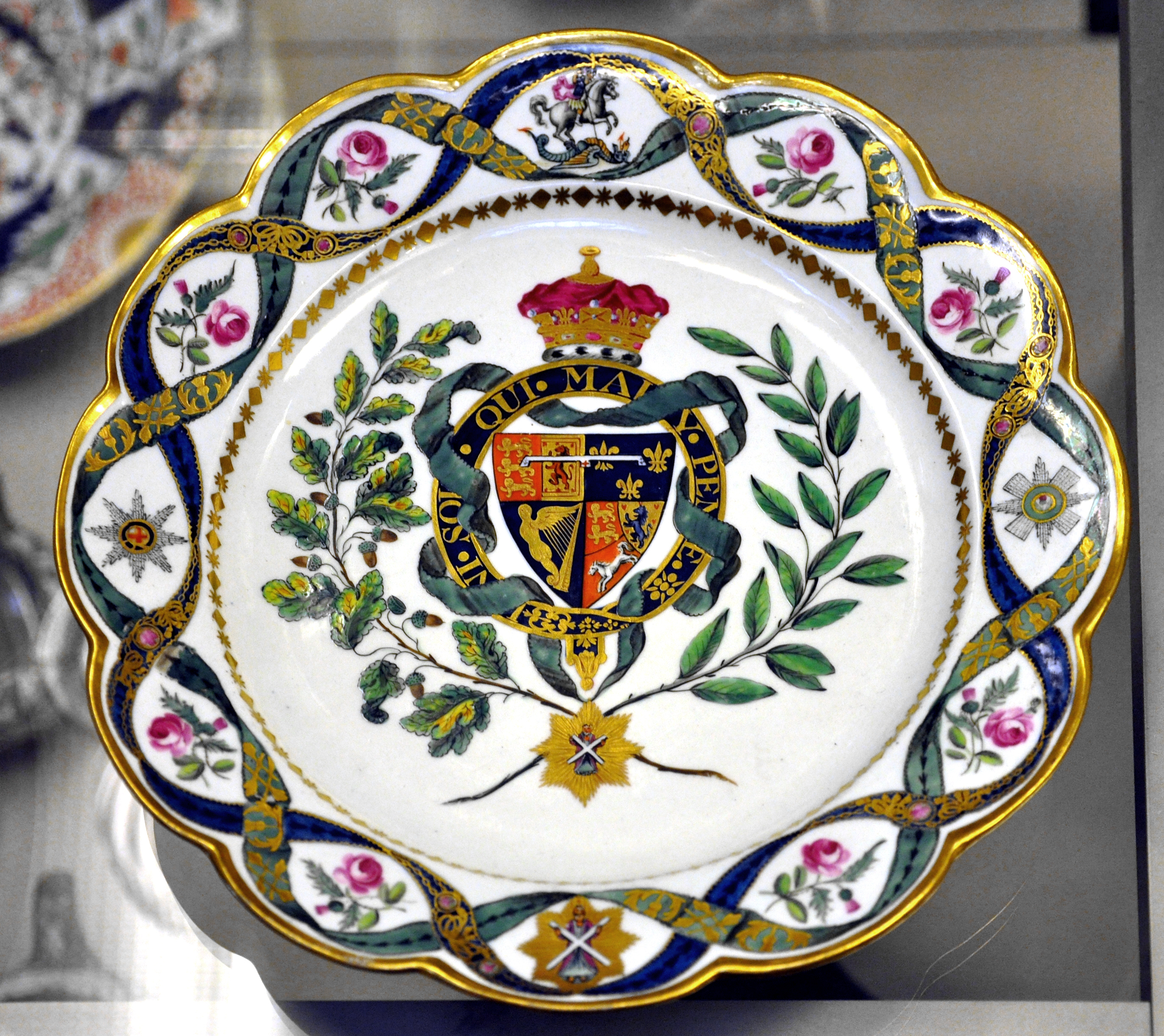 British Museum reference 1887,0307,V.83 Detailed description Soft-paste porcelainplate with the coat of arms of the Duke of Clarence, ordered to celebrate his Dukedom by Prince William, the future King William IV., 1789. English, Worcester, Flight factory Size Diameter: 9.7 inches Location Room 47